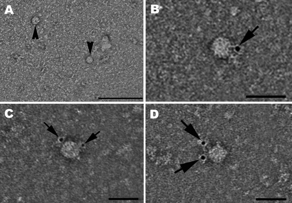 Figure 2. . Hepatitis E virus (HEV) particles in the cell culture supernatant of pork liver sausage sample A, collected at 33 dpi. A) Transmission electron micrograph of negatively stained HEV particles ≈33 and 34 nm (arrowheads). Scale bar indicates 200 nm. B–D) Hepatitis E virions ≈28 (B), 33 (C), or 32 (D) nm in diameter, identified by using an HEV genotype 3–specific rabbit hyperimmune serum and a gold-labeled secondary antibody. Arrows show bound gold particles. Scale bars indicate 50 nm.